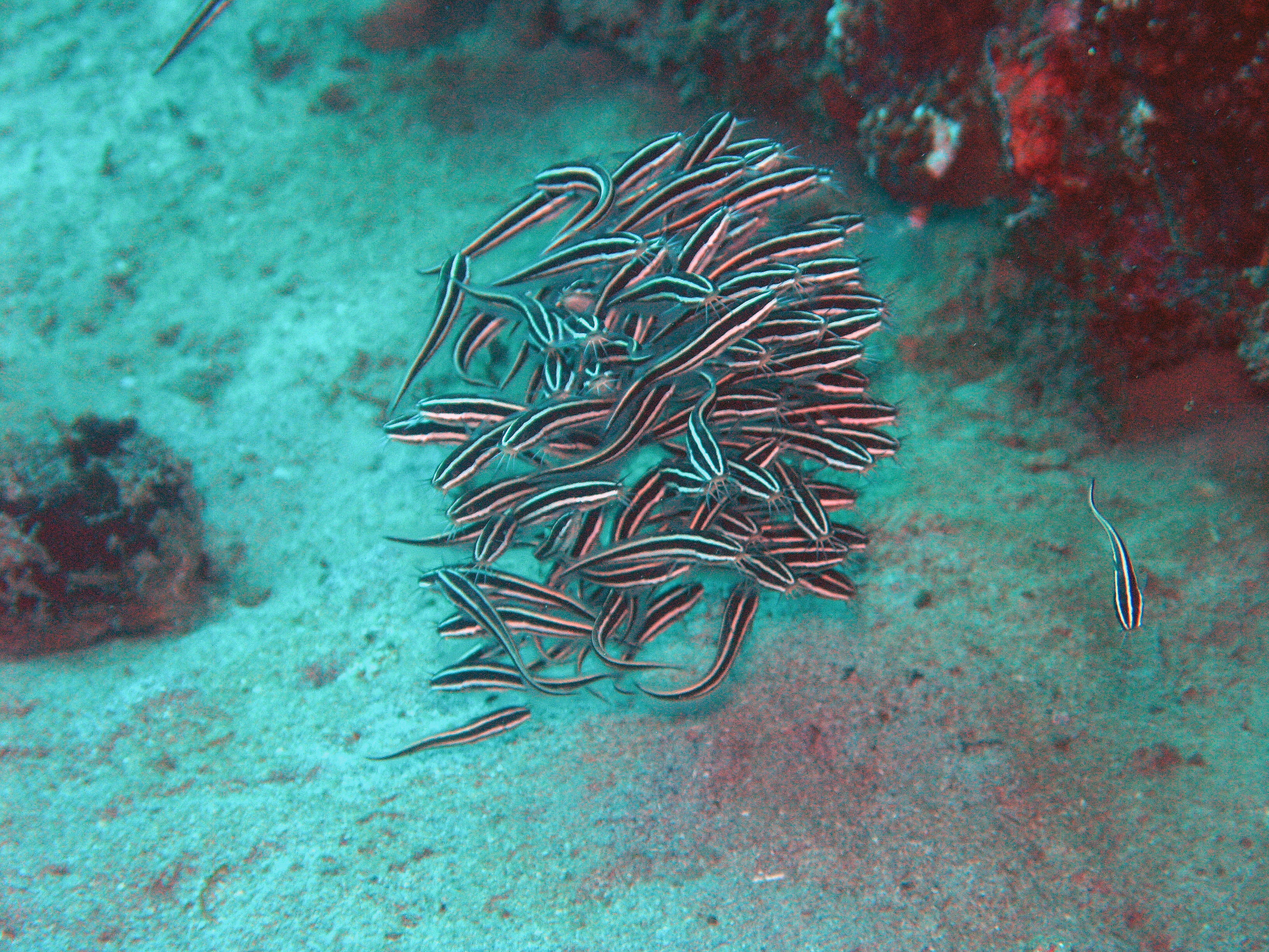 Picture of a school of juvenile striped eel catfish, Plotosus lineatus. The schools are typically ball shaped. Photographed in Manado, North Sulawesi, Indonesia.